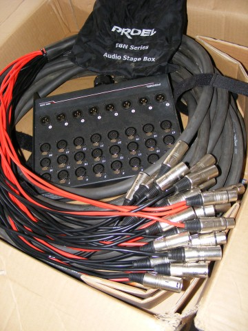 Free Photos – Stage Box Proel Ebn More photos and details about possible copyright or licensing restrictions here: Full Size Up to 3072 x 2304 pixels Information Regarding Copyright